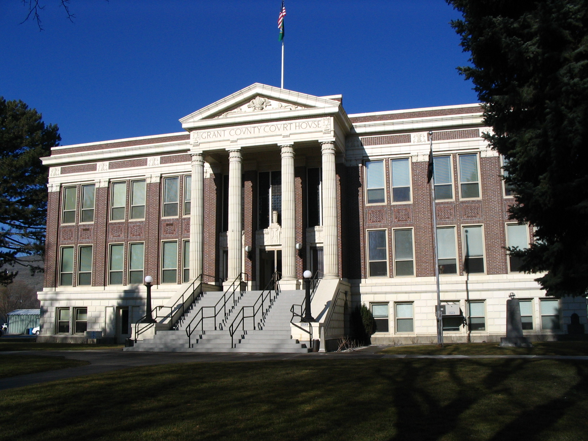 The Grant County Courthouse in Ephrata, Washington State built in 1917. It was listed on the National Register of Historic Places in 1975. NRHP Ref. #75001850